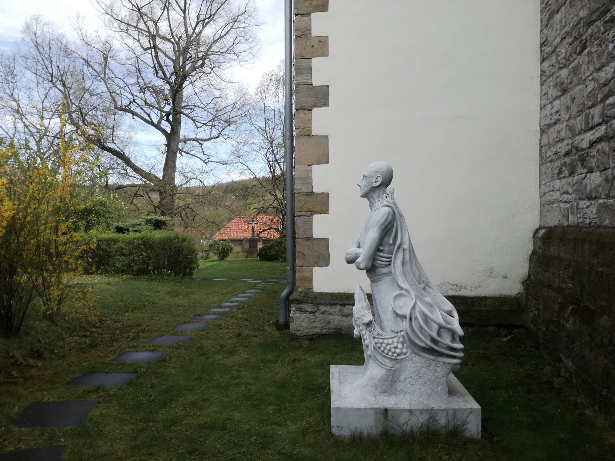 sculpture of St. Benignus of Dijon, artistic title: Holy Benignus of Bischleben, artist: Thomas Nicolai / AAA., year of the erection: 2011, material: Carrara marble, size: lifesize h 1,80 m, location: parish church St. Benignus in Erfurt-Bischleben, patron saint of the parish church